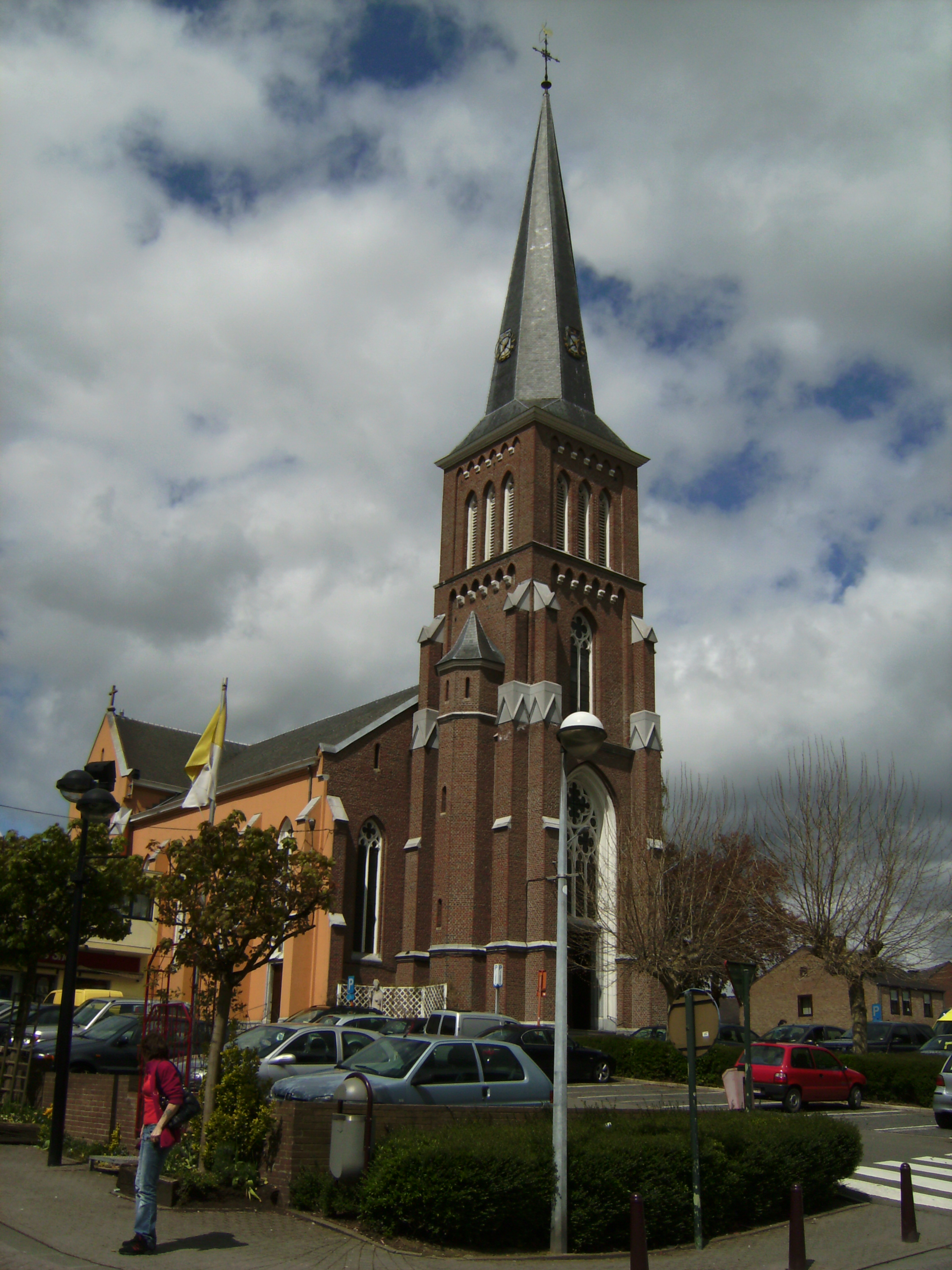 Kelmis, church